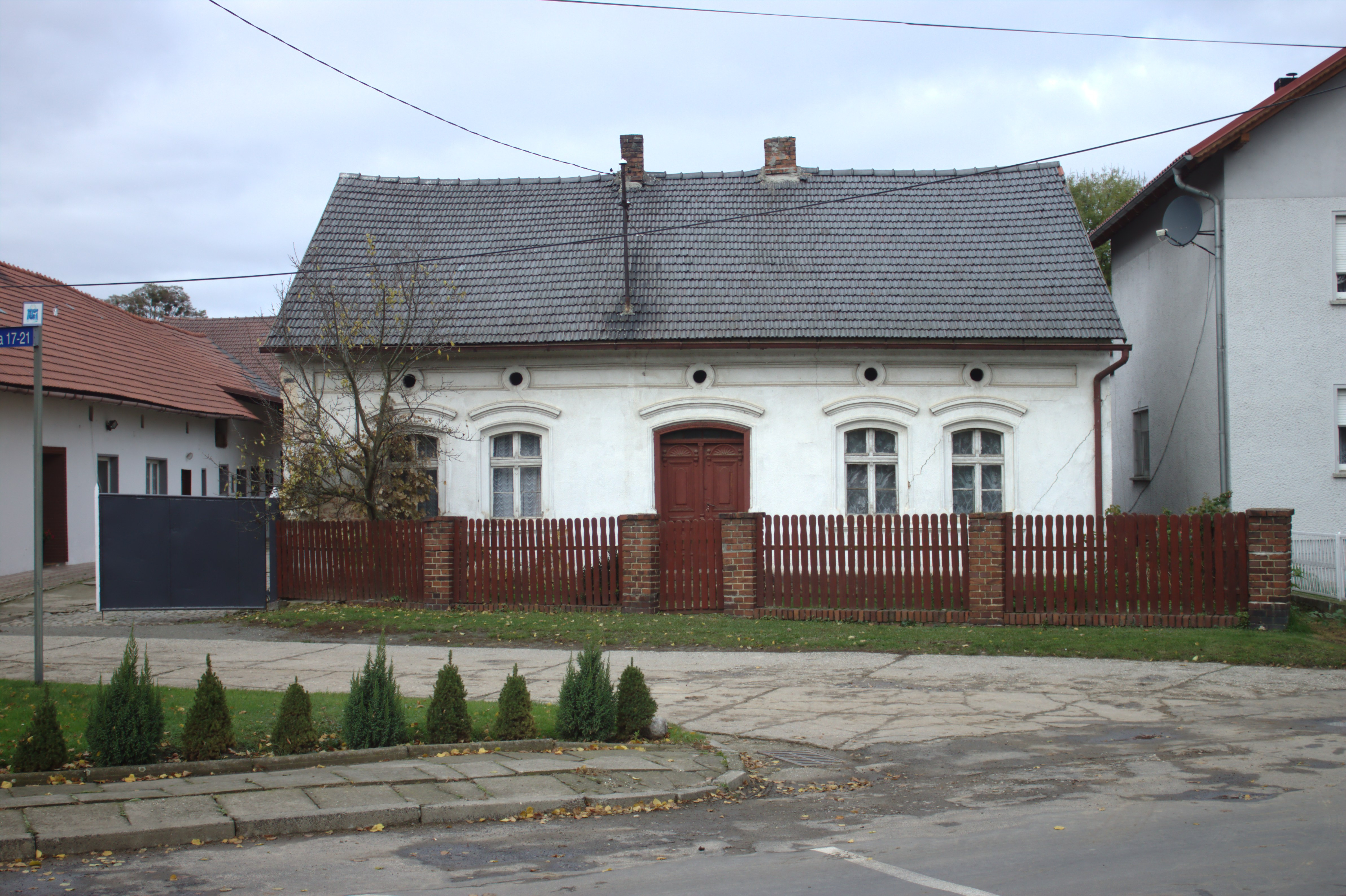 A building at the main street in Łany, Poland